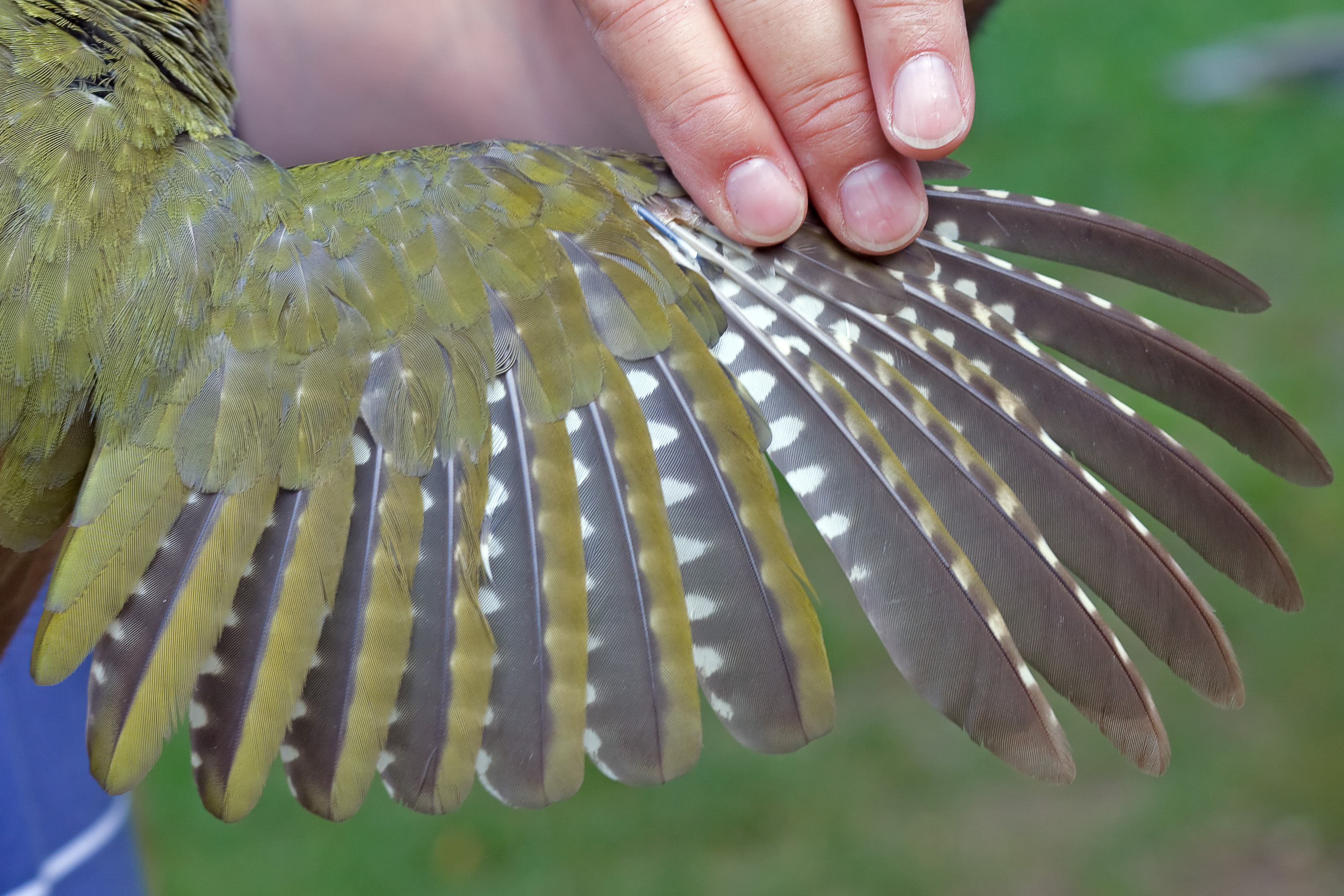 right wing of a male Green Woodpecker